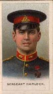 Cigarette card with colorised photograph of Ernest George Horlock VC.